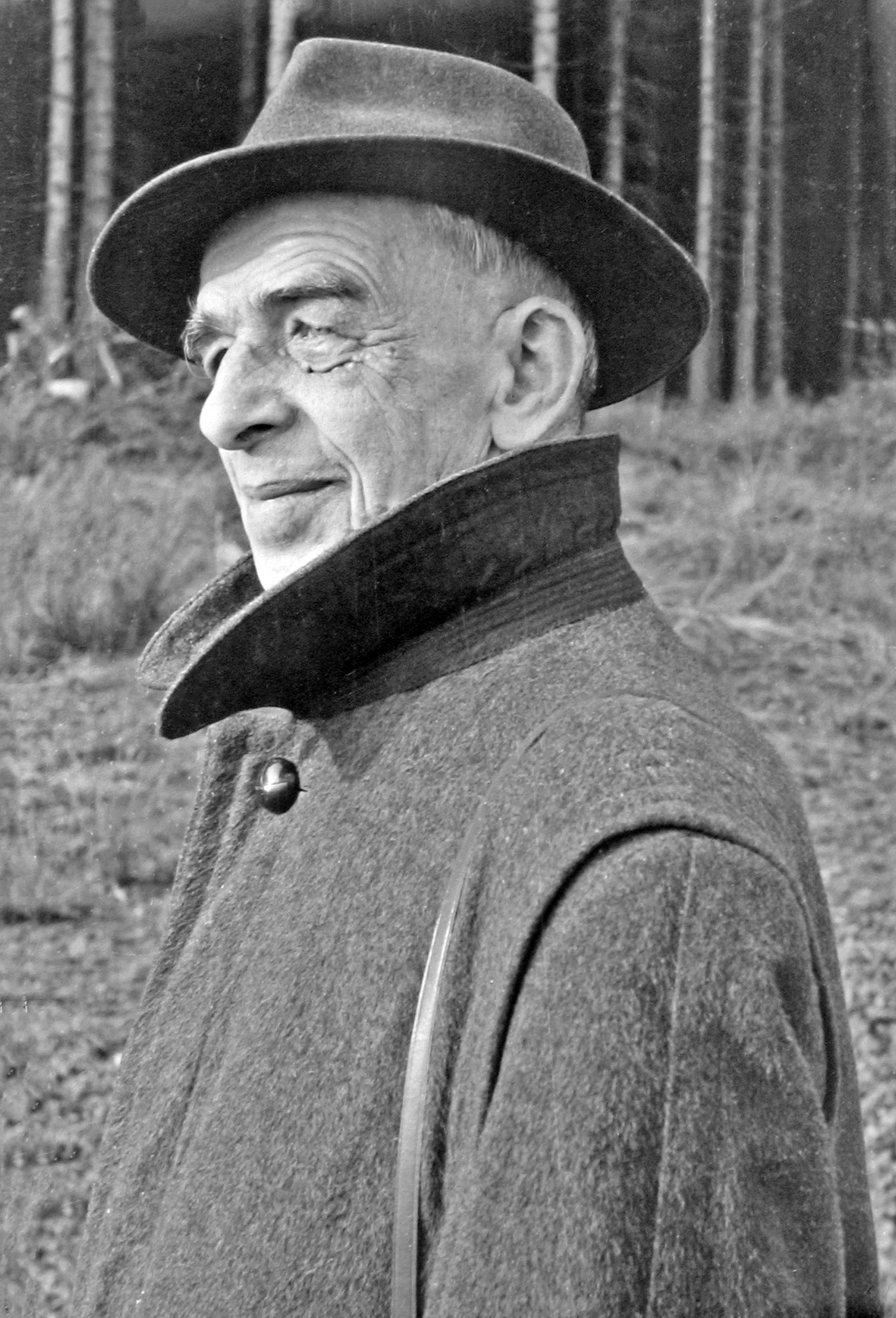 Dr. Willy Wobst